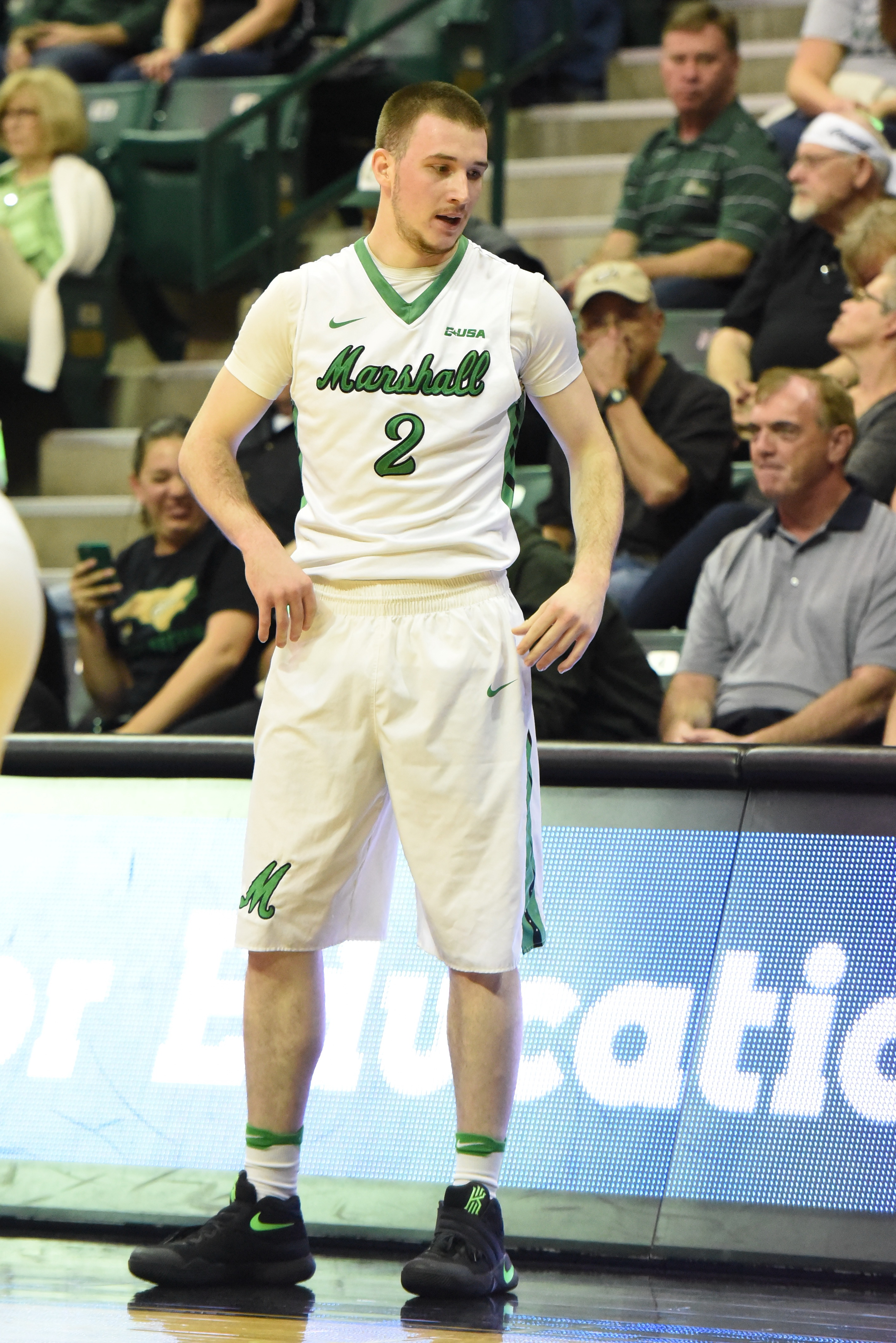 Stevie Browning while at Marshall. Photo taken February 25, 2017 by Chris Crews